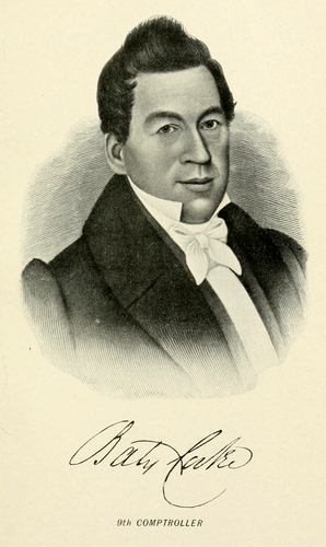 Bates Cooke, New York State Comptroller, 1839-1841 Other information Originally from Roberts, James A.; A Century in the Comptroller's Office, State of New York, 1797 to 1897; Albany NY, James B. Lyon; 1897. Digitized by Richard J. Shiffer.